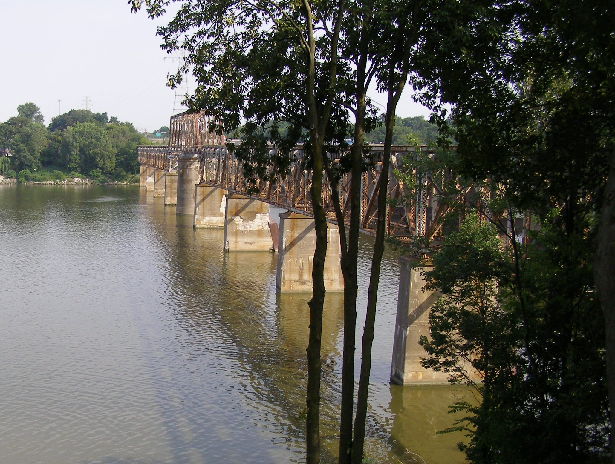 "Toledo Terminal Upper Maumee River Swing Bridge", in Maumee, Ohio - Built in 1902 and abandoned in 1982 after a derailment (May, 1982) damaged the structure. The tracks were removed in 2006, shortly before this photograph was taken.